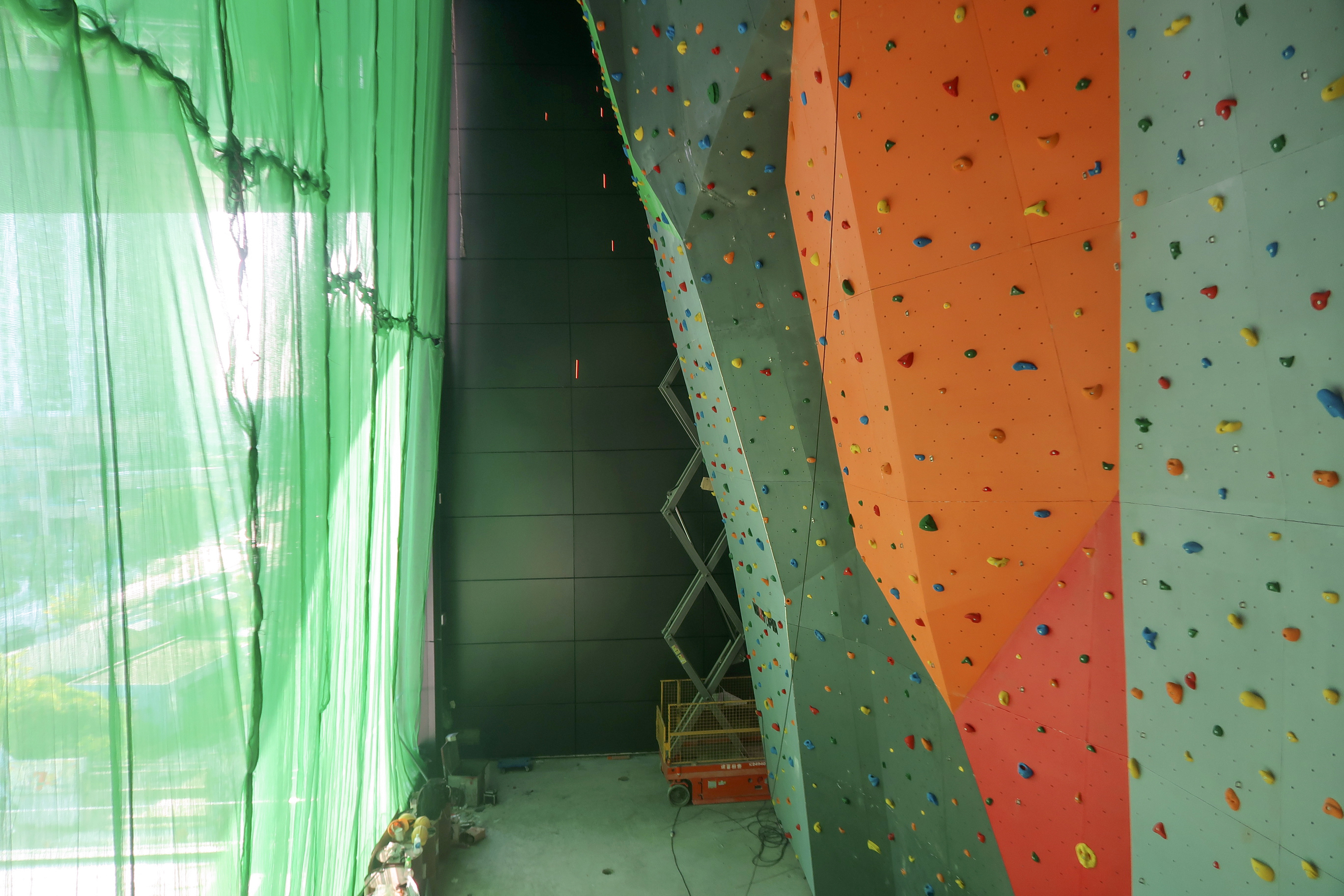 Siu Lun Sports Centre Climbing wall